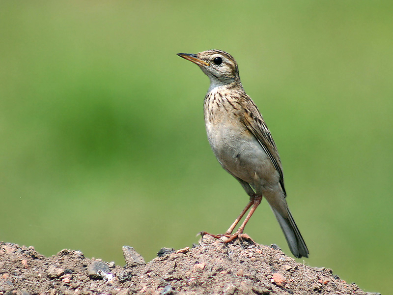 Paddyfield Pipit (Anthus rufulus) in Kolkata, West Bengal, India.